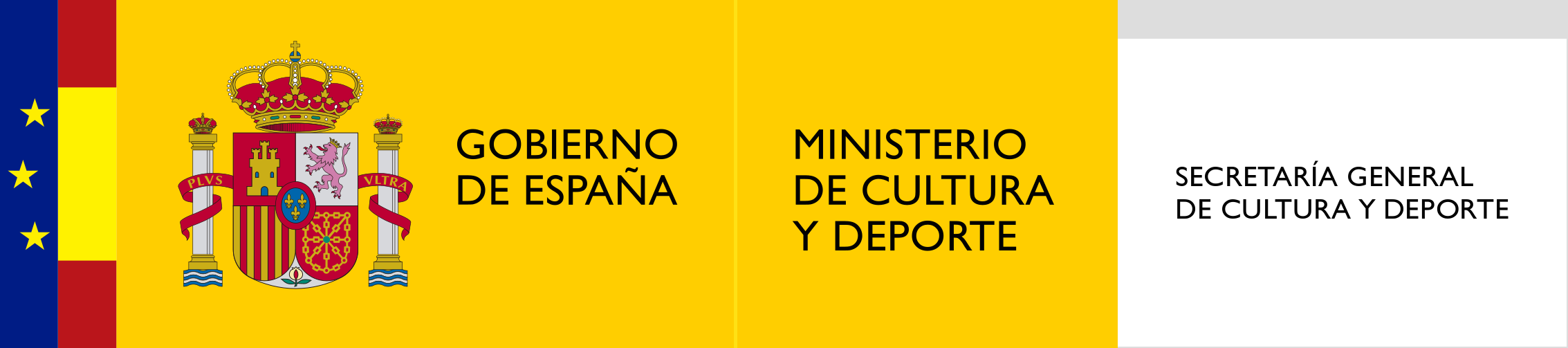 Logo of the General Secretariat for Culture of Spain.